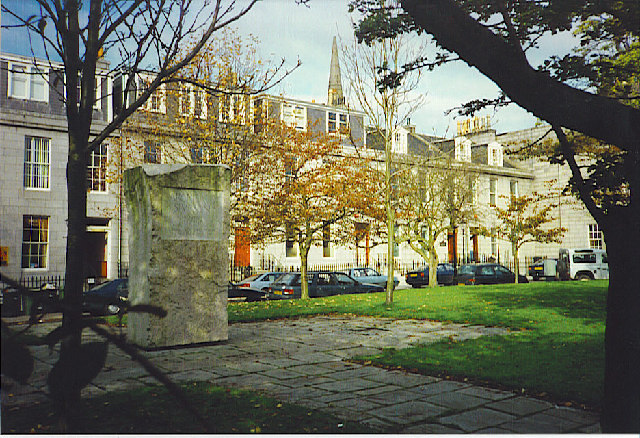 Memorial to Archibal Simpson in Bon Accord Square, Aberdeen, Scotland.